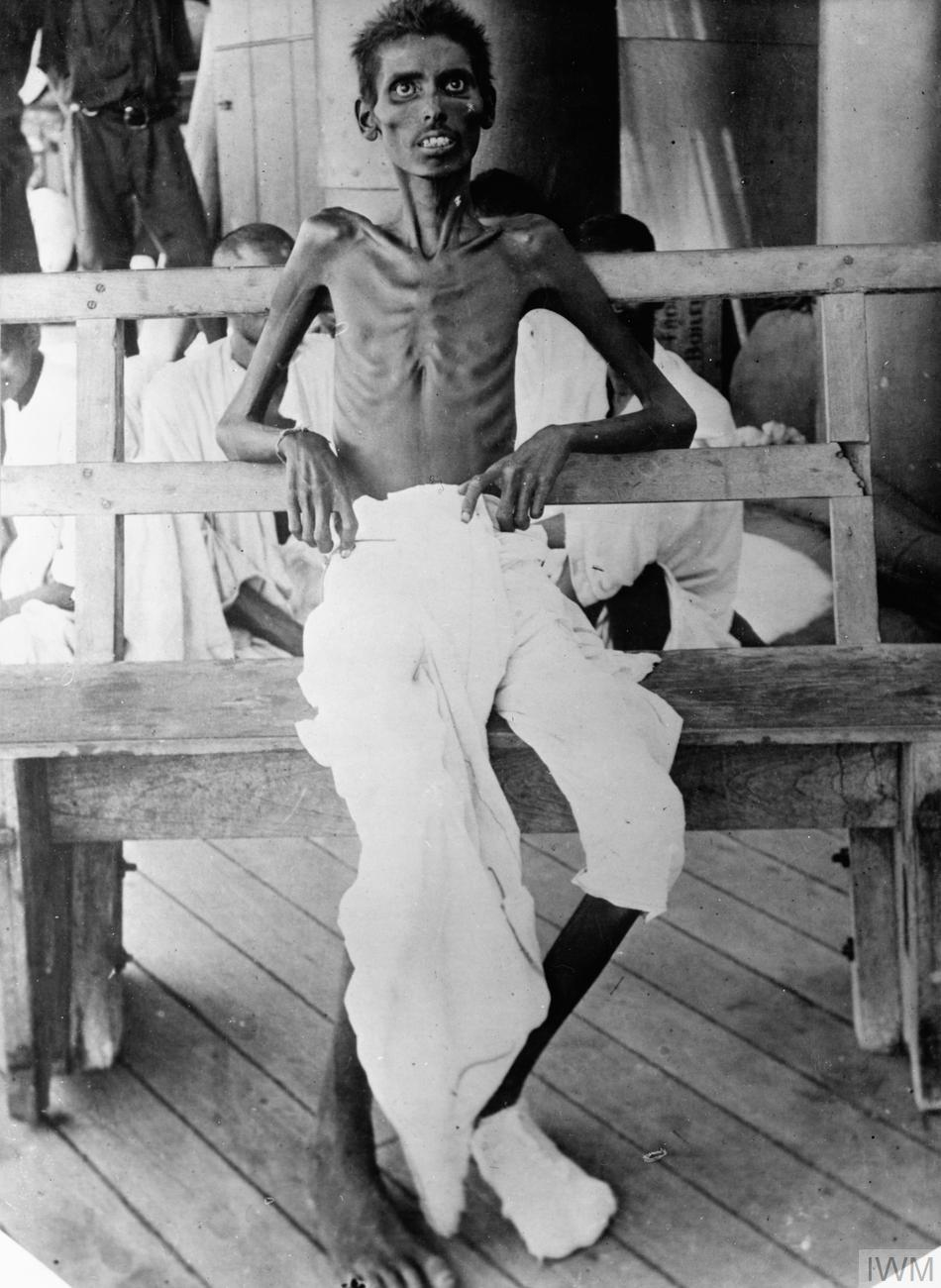 This photographv shows an emaciated Indian army soldier who survived the Siege of Kut.